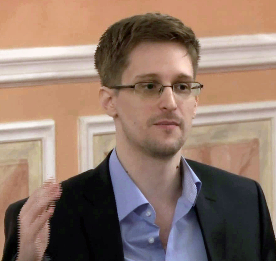 Edward Snowden (1983–) Alternative names Ed Snowden / Edward Joseph SnowdenDescriptionAmerican activistComputer professional who leaked classified information from the National Security Agency (NSA), starting in June 2013.Date of birth 21 June 1983 Location of birth Elizabeth City, North Carolina, United States of America Work period2001-presentWork location Previously United States of America, currently RussiaAuthority control : Q13424289 VIAF: 307157574 ISNI: 0000 0004 2843 1865 LCCN: no2013111241 MusicBrainz: e4029883-c074-4e1c-add4-c35d73edb79f GND: 104933289X WorldCat creator QS:P170,Q13424289